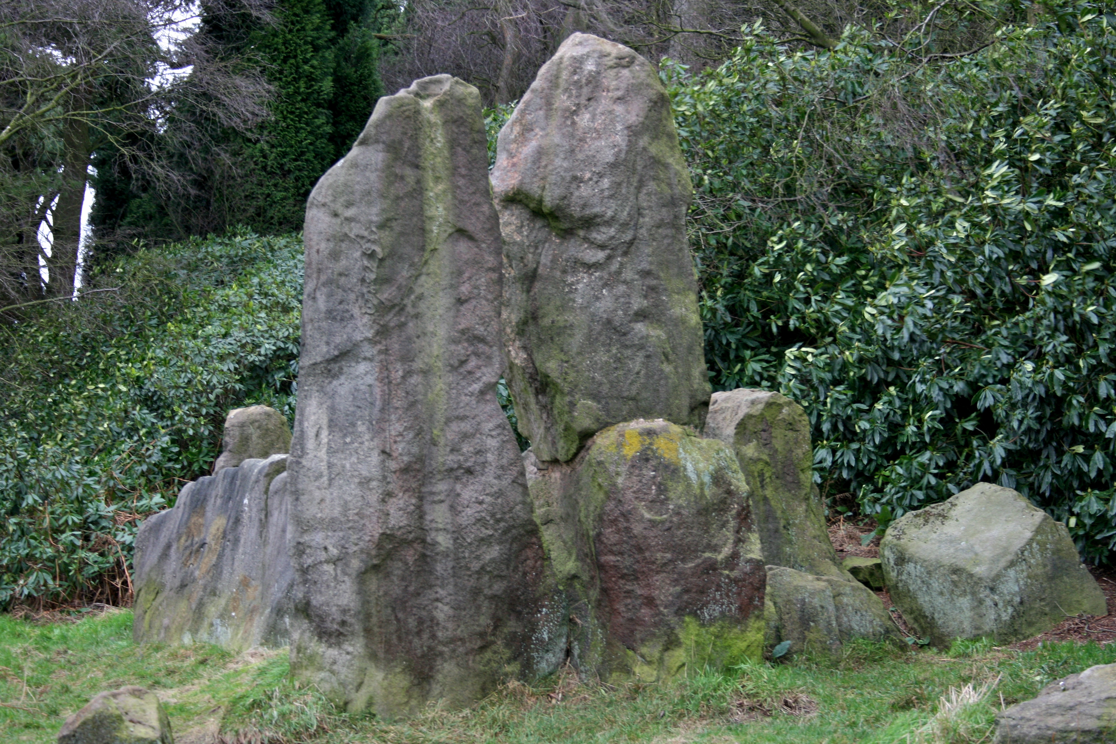 The Bridestones, nr. Congleton, Cheshire/Staffordshire, UK